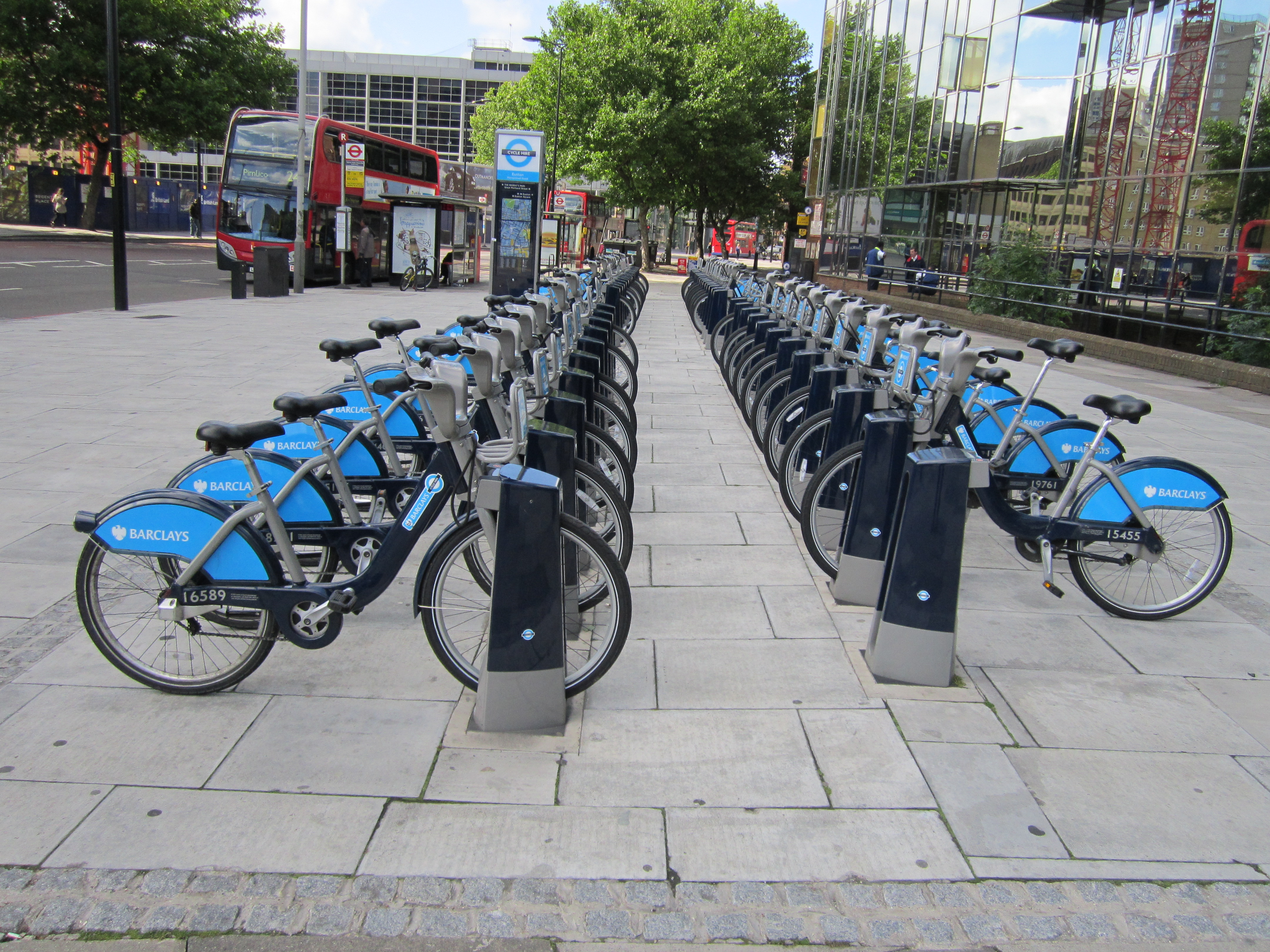 Barclays Cycle Hire, Euston, London.